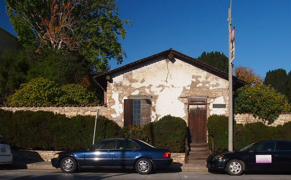 Sherman Quarters, Monterey, California, USA. Viewed from the east-southeast.